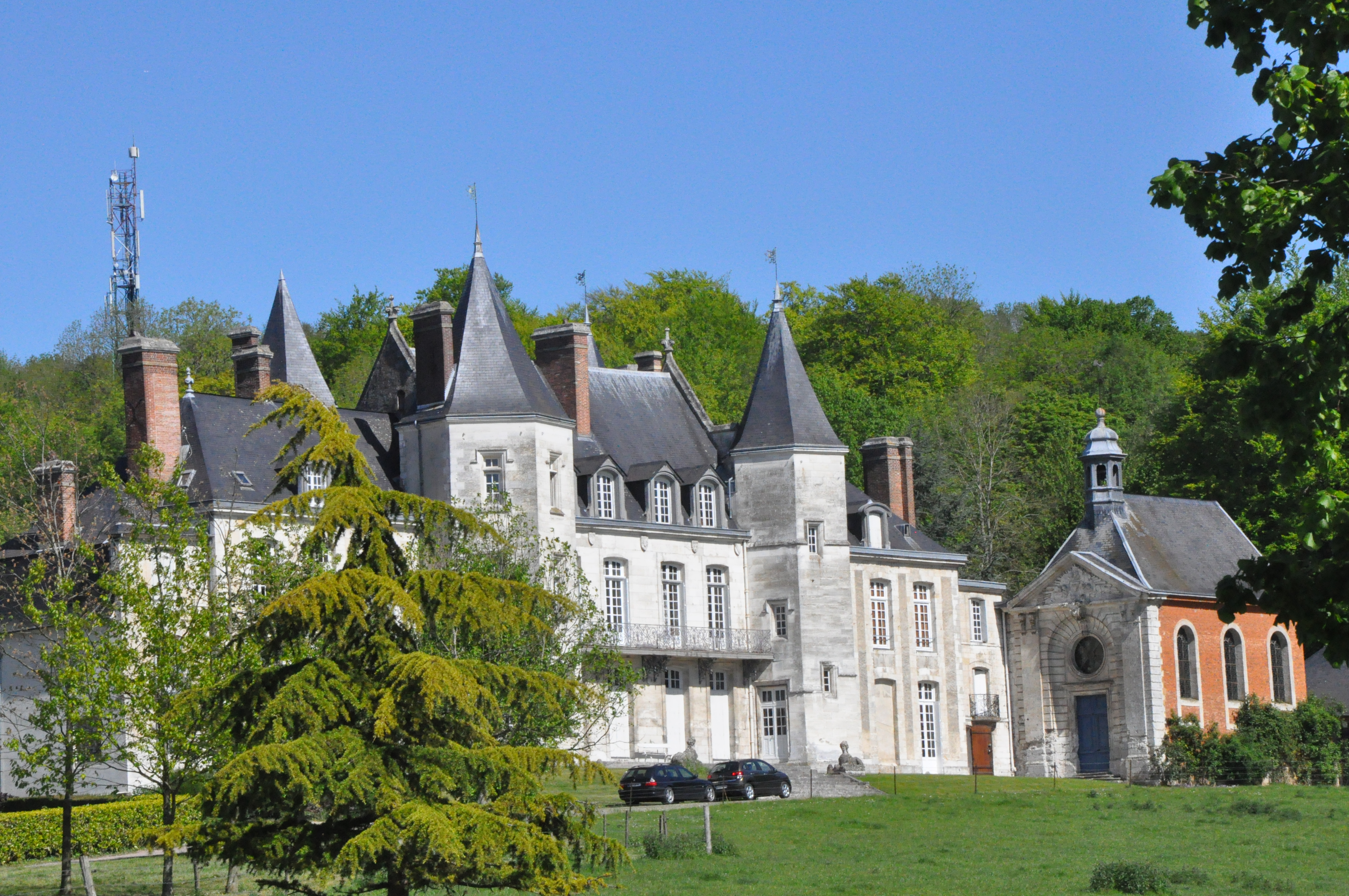 Castle of Esneval (Normandy, France))